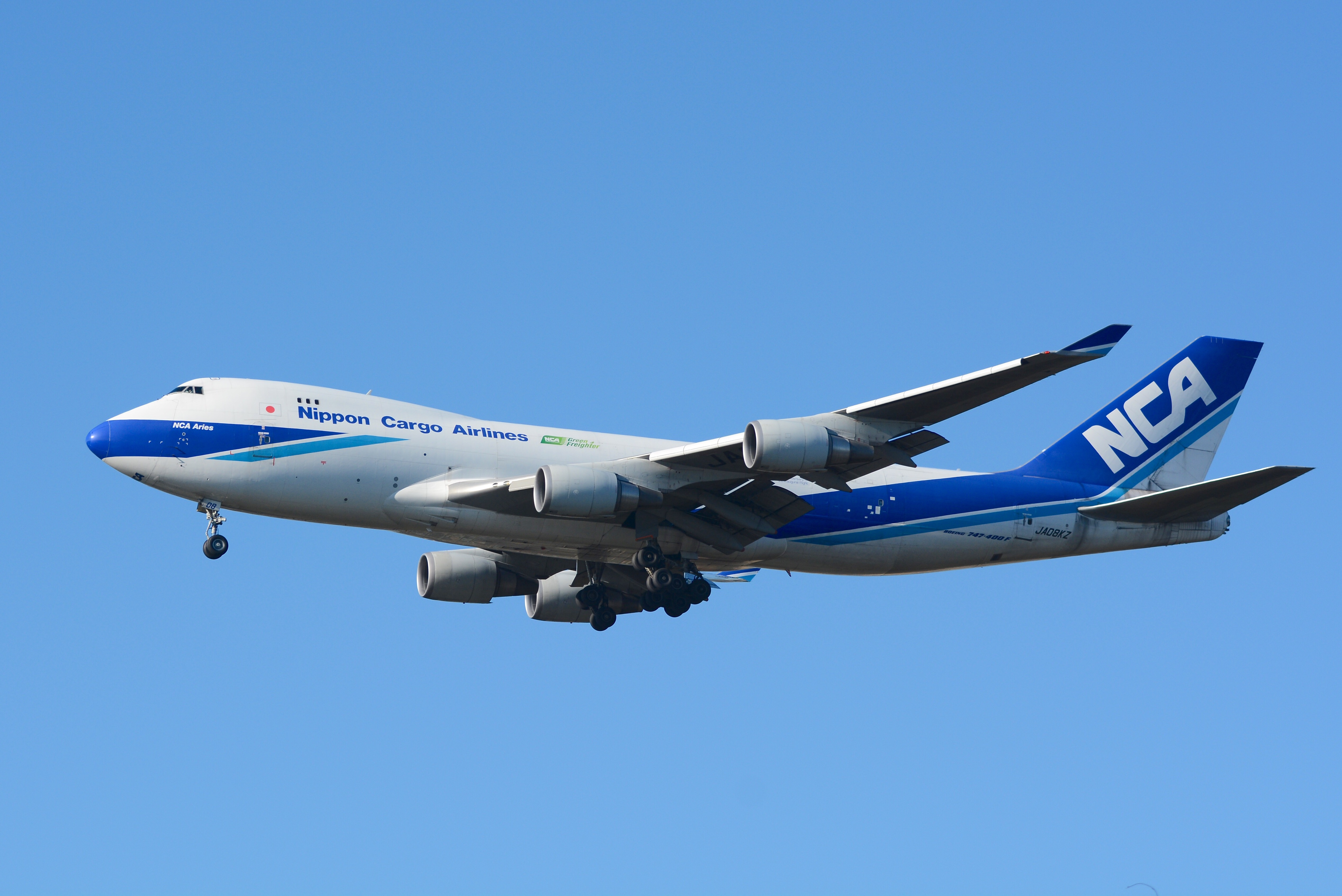 Nippon Cargo Airlines, Boeing 747-400F JA08KZ NRT